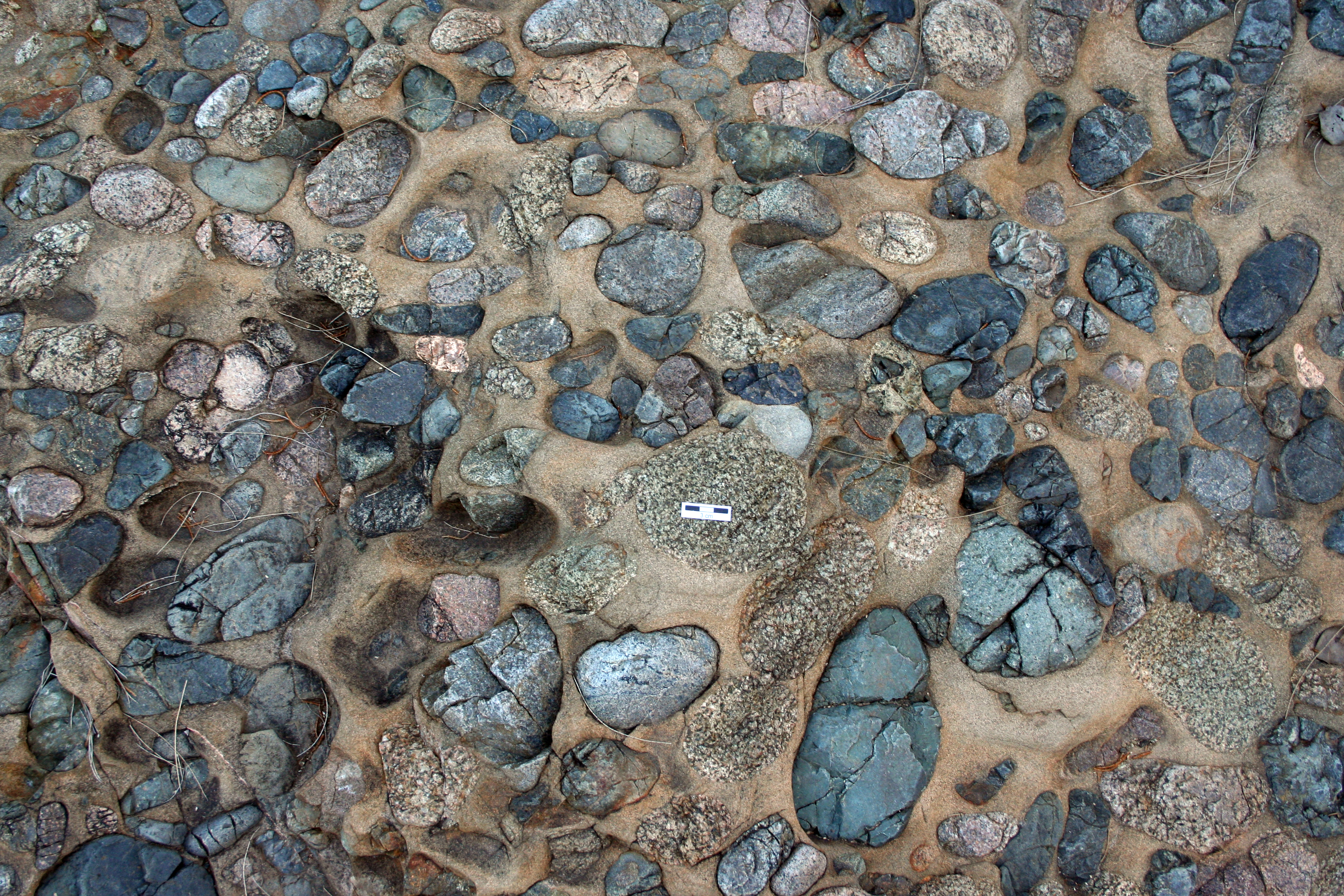 Detail of sandy, polymictic conglomerate within the Spion Kop Conglomerate, New South Wales.